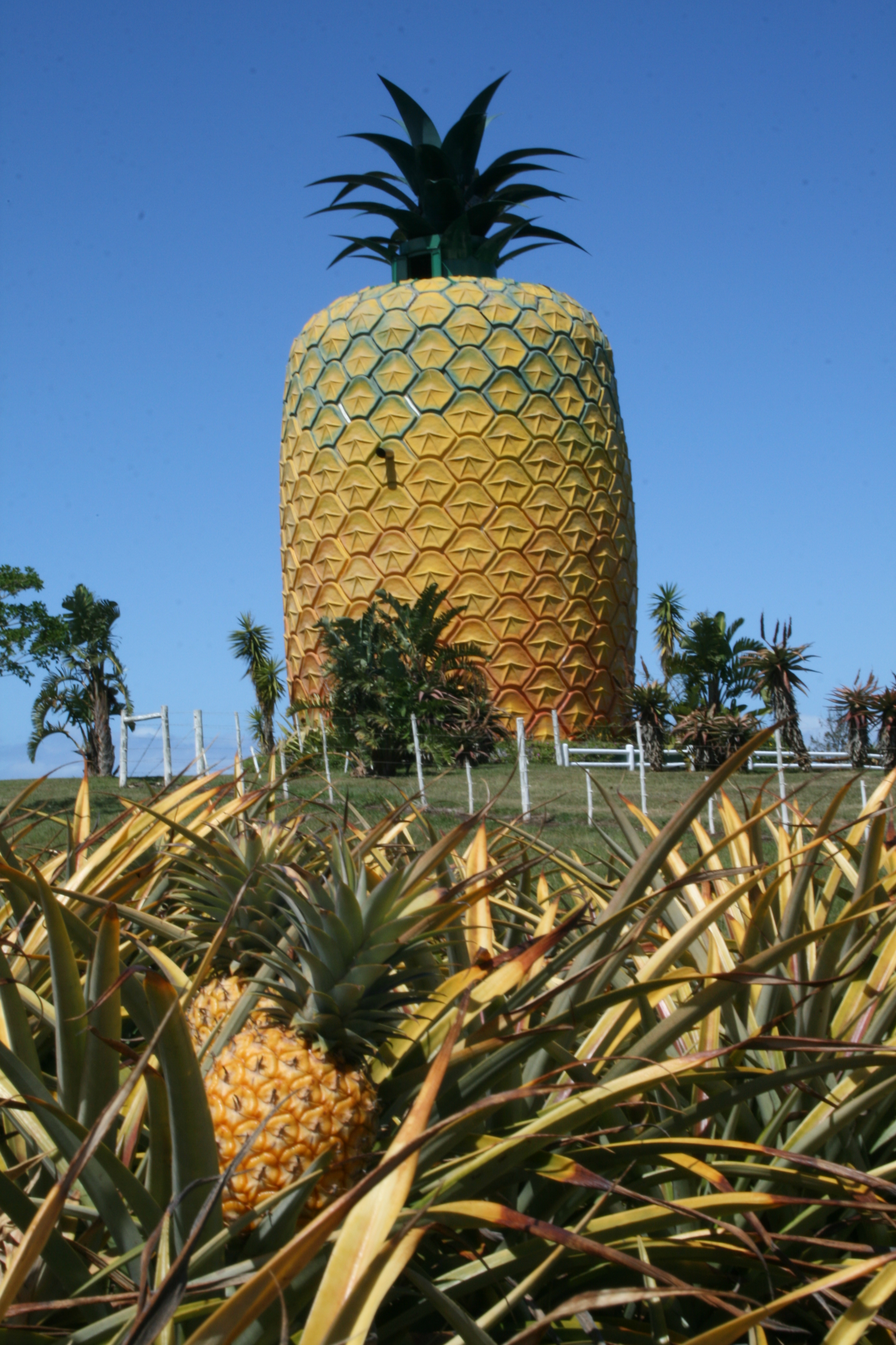 The Big Pineapple, between Port Alfred and Bathurst on the R67 in the Eastern Cape, South Africa chaz